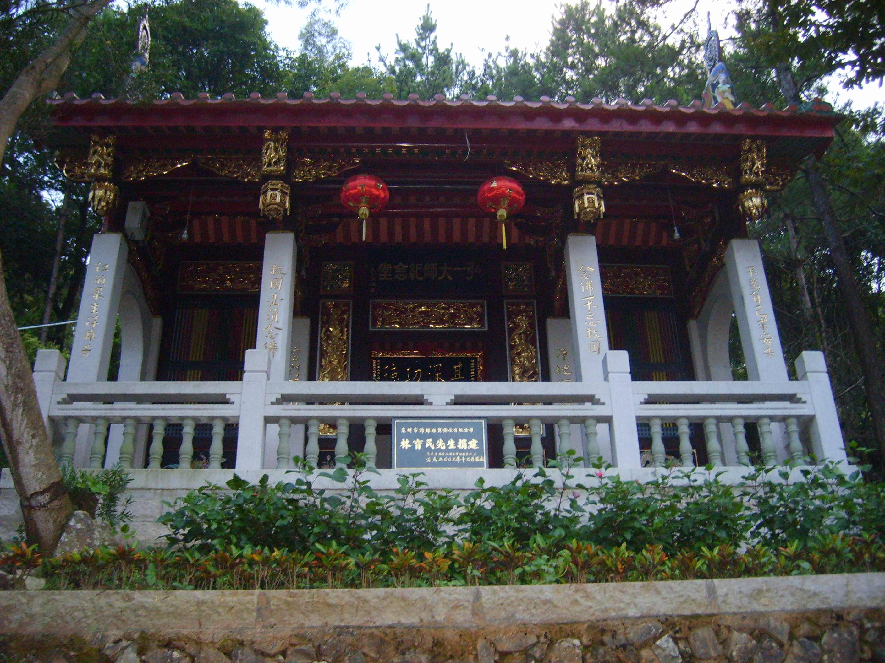 Hongyi Memorial Hall, Lingying Temple